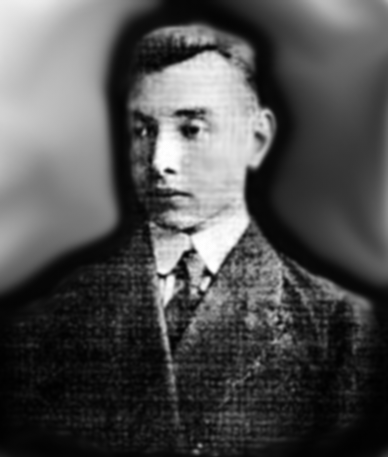 Nikolay Sudzilovsky